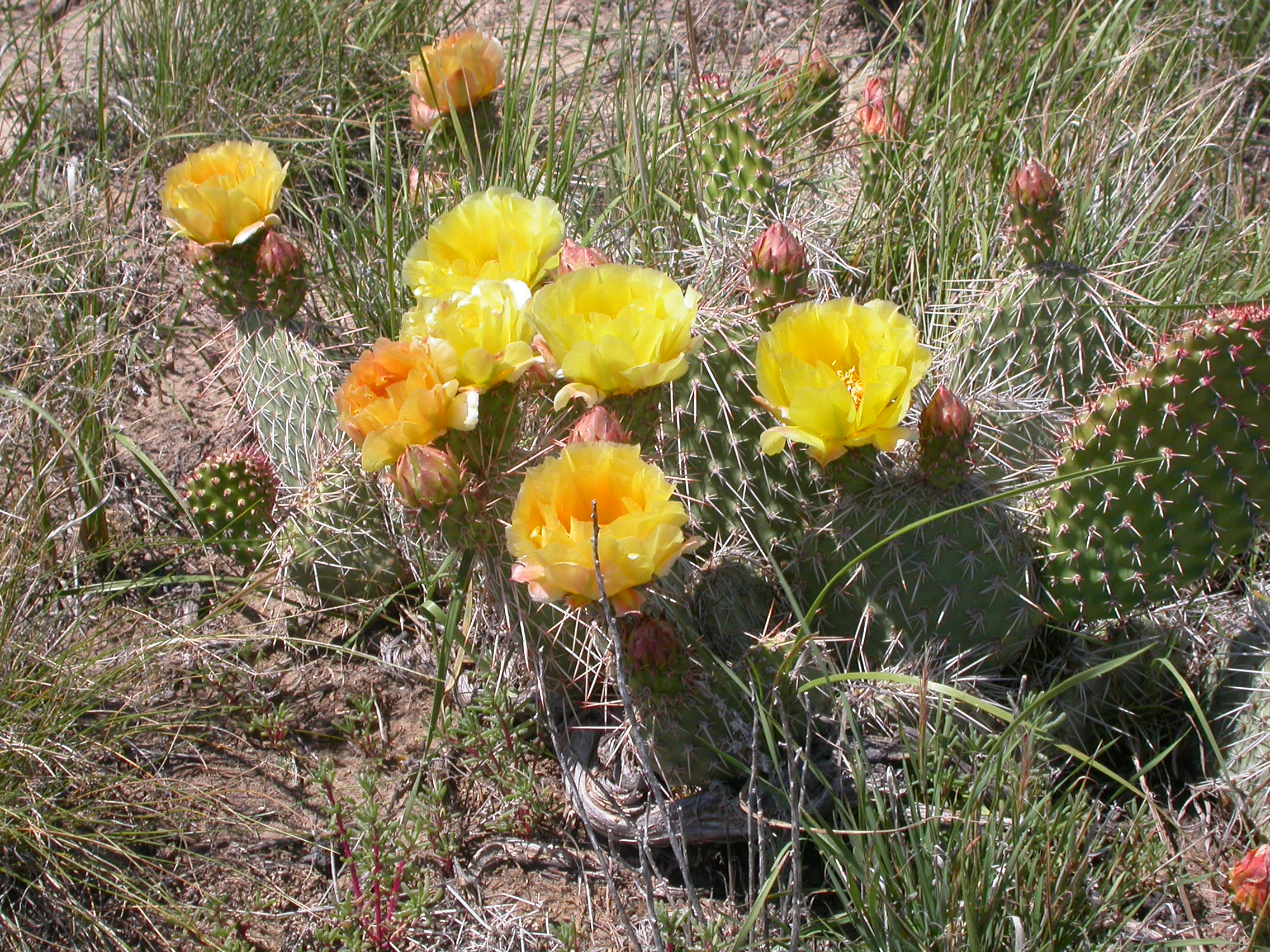 Opuntia polyacantha var. polyacantha in Idaho. The relative abundance of this cactus may have no relationship to the amount of disturbance due to overstocking and such.